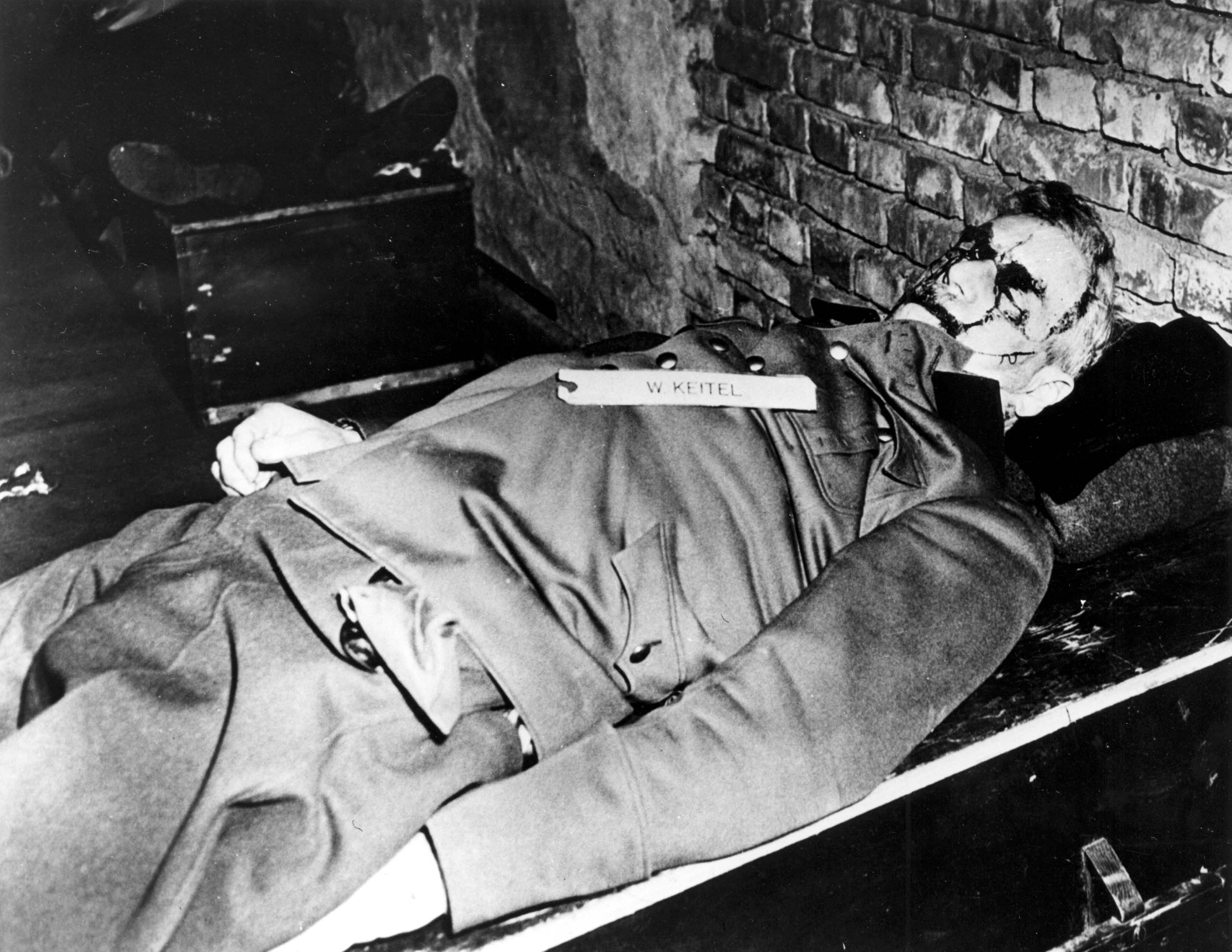 The body of Wilhelm Keitel after being hanged, Oct. 16, 1946.